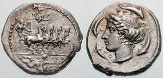 Sicilia, Syracusae. Second Democracy. 466-406 BC. AR Tetradrachm (16.86 g). Obverse die signed by Euth-, reverse die signed by Phrygillos. Struck circa 415-406 BC. Nike driving quadriga right, holding reins; above, Nike flying left, crowning charioteer; in exergue, Skylla right, holding trident over shoulder, dolphin behind, fish and signature ΕΥΘ before Head of Arethusa left, grain ear in hair, wearing looped earring and necklace, surrounded by four dolphins; signature ΦΡΥΓΙΛΛ/ΟΣ in two lines below neck truncation.